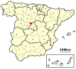 Location of Segovia in Spain.